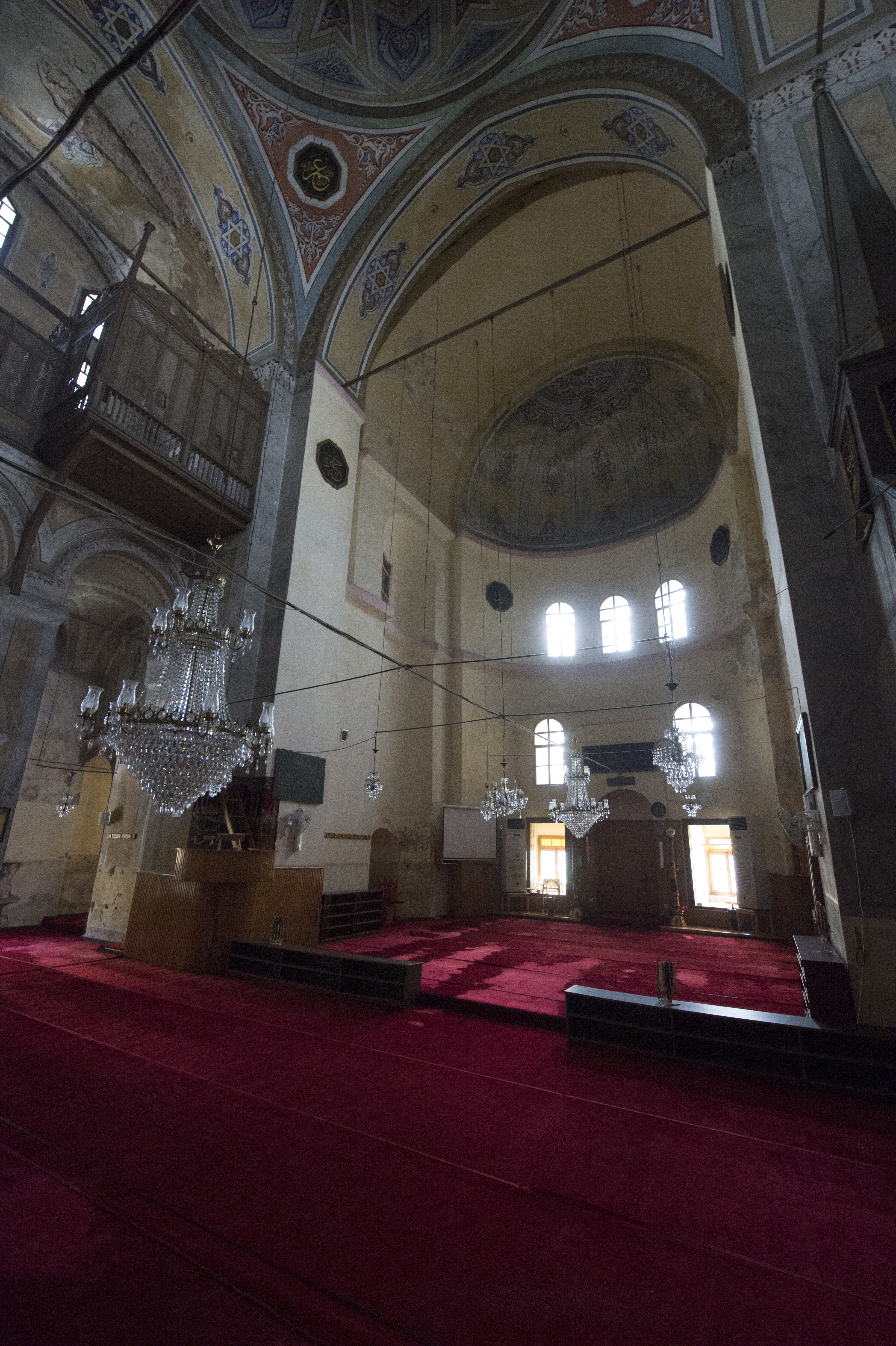 A look towards apse with now the mihrab